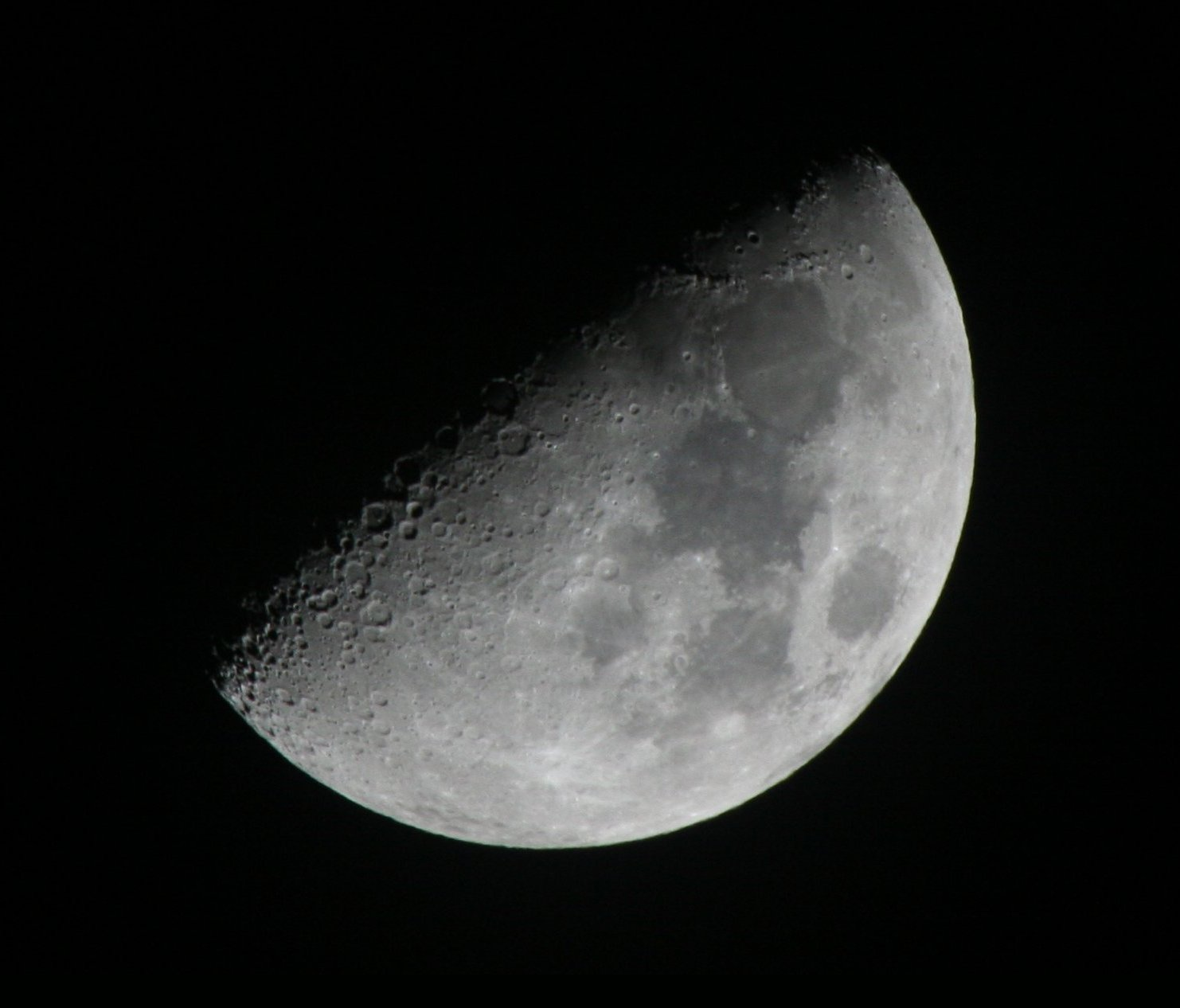 Photographed by and copyright of (c) David Corby (User:Miskatonic, uploader) 2006